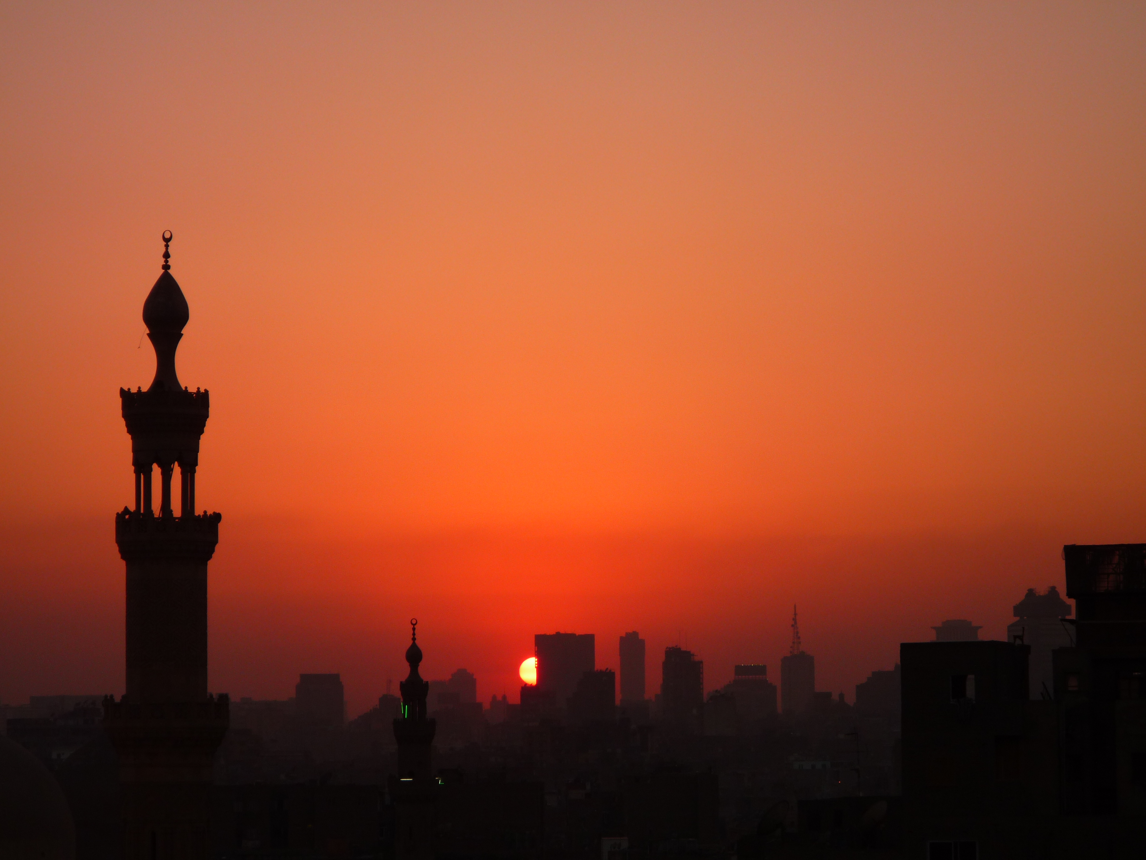 Islamic Cairo. The muezzins were calling as we sat down to dinner.